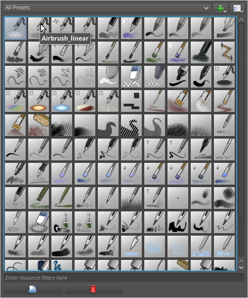 Part of Krita 2.8's default brush presets.